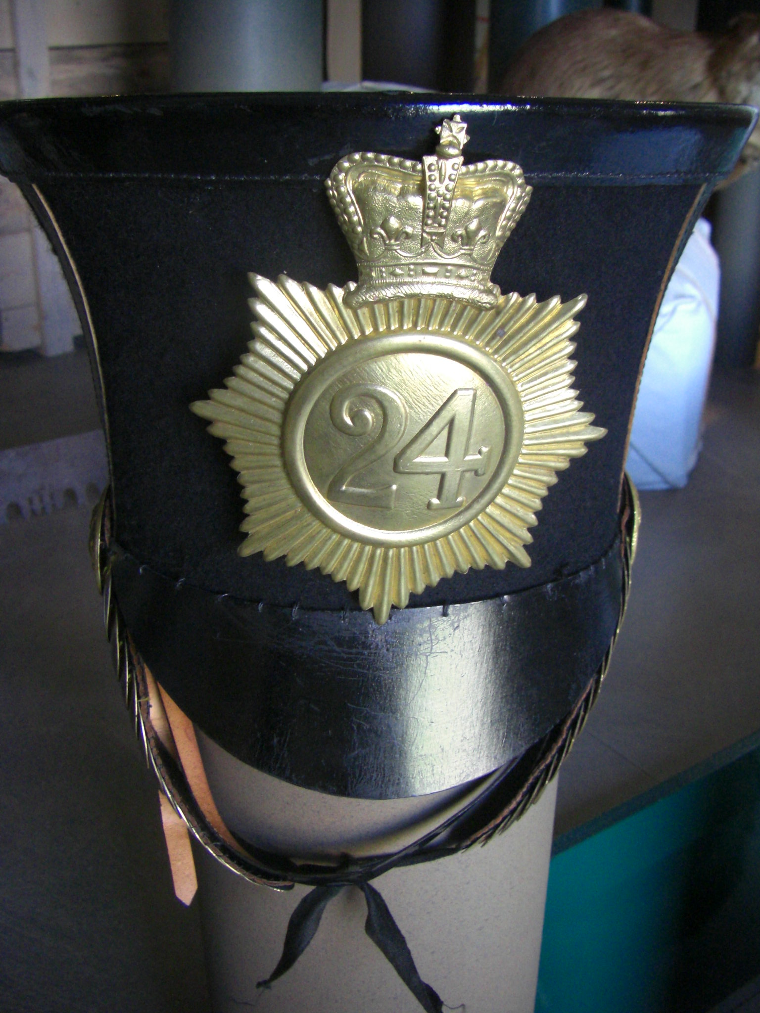 Reproduction d'un shako de soldat du 24th Regiment of foot, circa 1840.